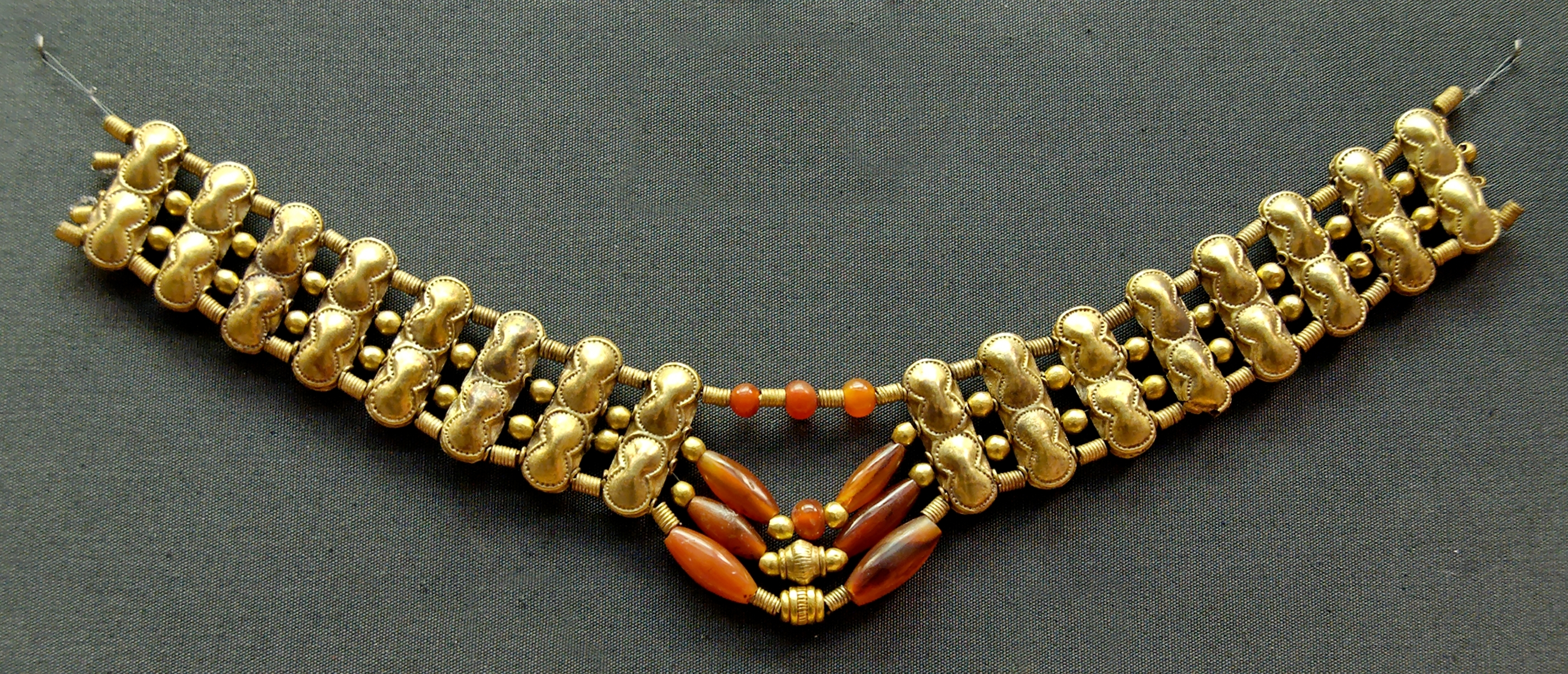 Necklace with gold beads in the shape of double figure-of-eight shields, spiral gold beads and carnelian beads. Cypriot artwork with Mycenaean inspiration, ca. 1400-1200 BC. From Enkomi.